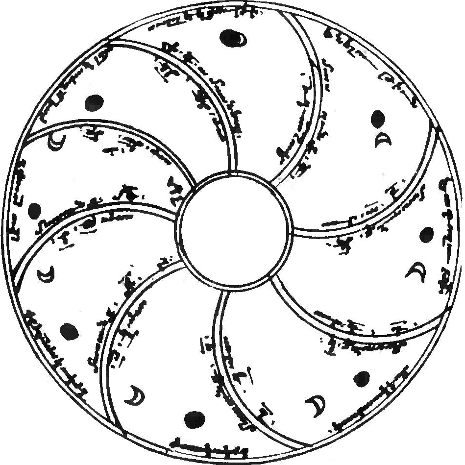 Anania Shirakatsi, 7th century, Phases of the Moon, Bolorakner